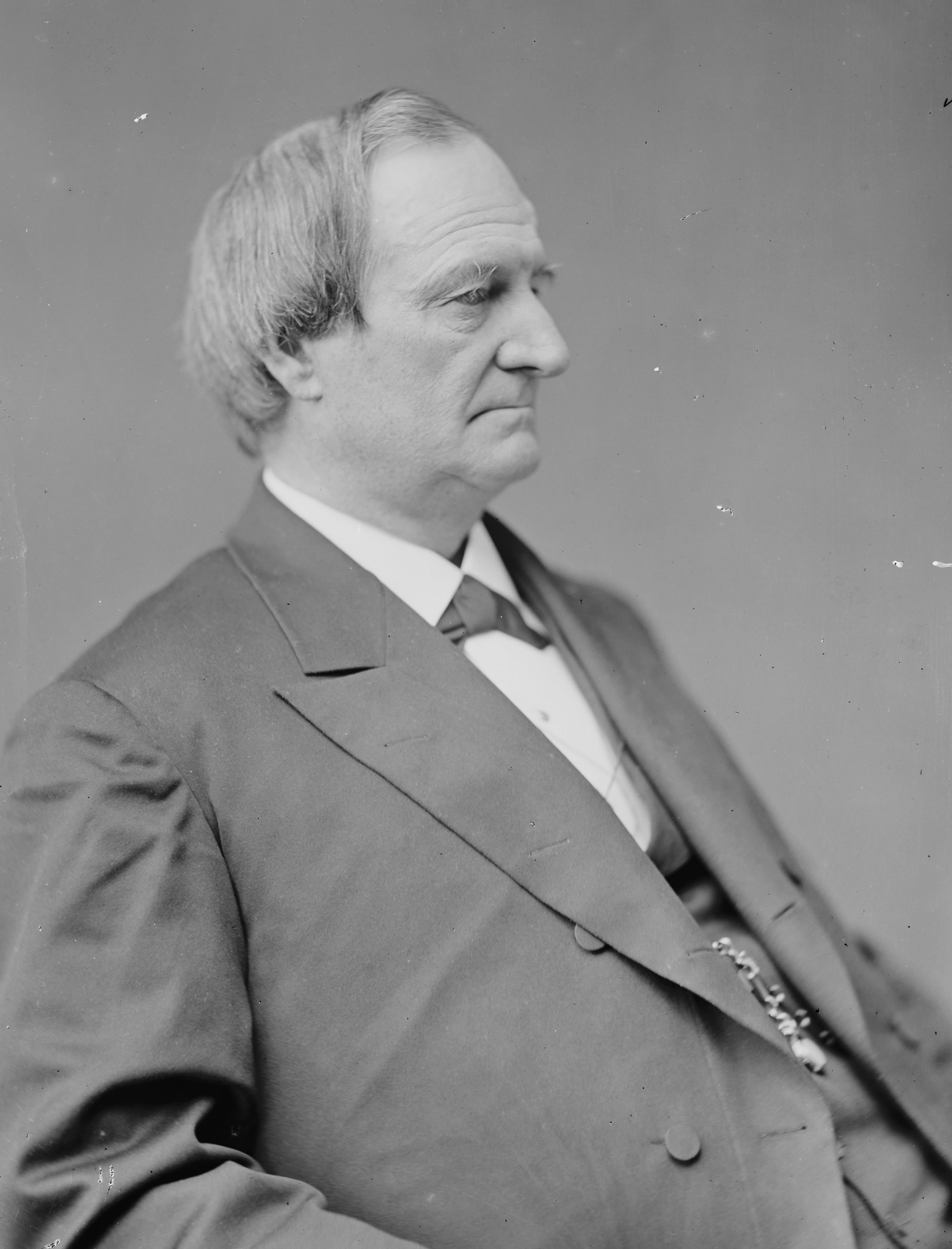 Alphonso Taft, former U.S. Secretary of War.